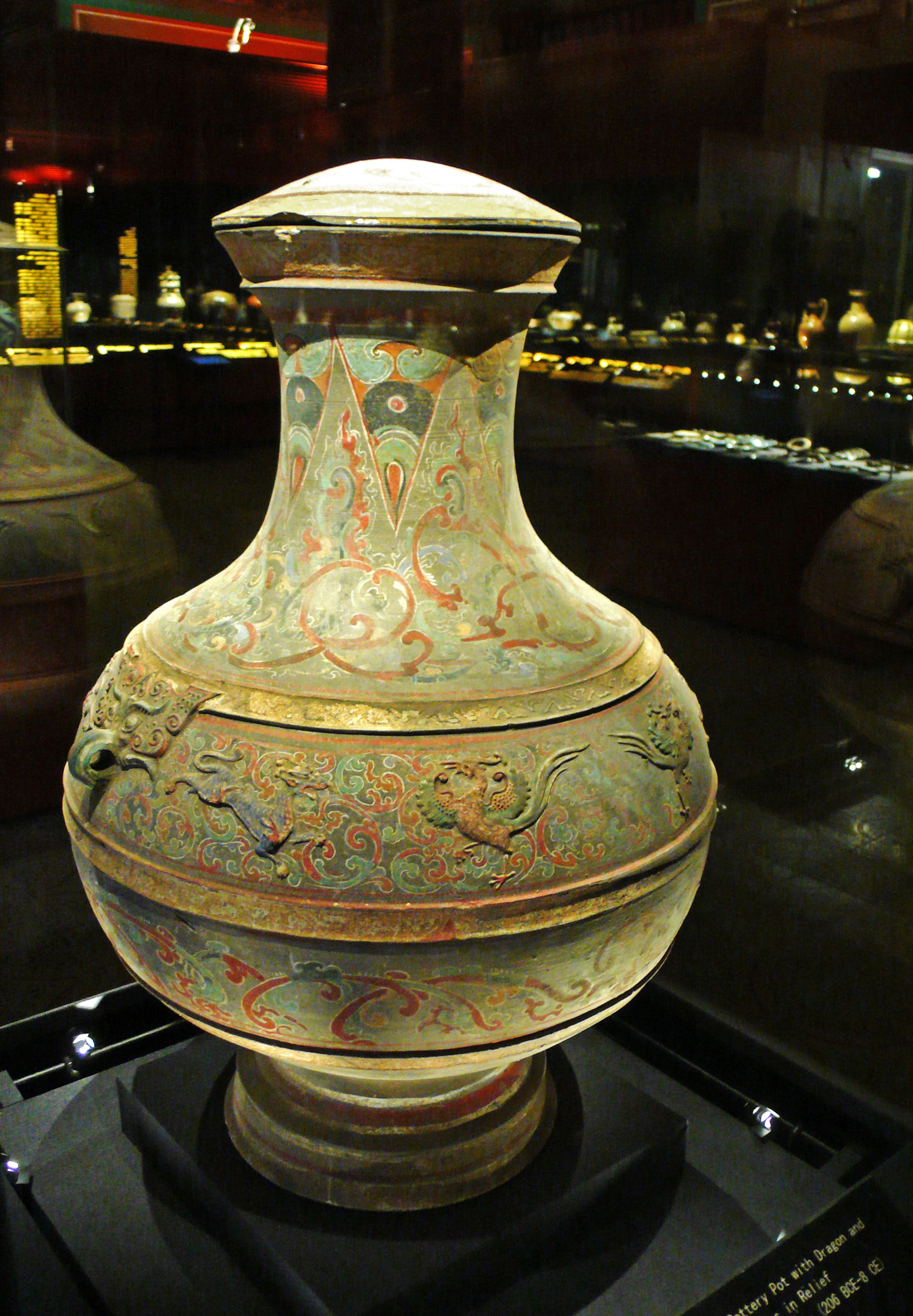 Collection of Palace Museum, Beijing. Originally uploaded to: Painted pottery pot with dragon and phoenix relief, as well as taotie designs for the lug handles. Western Han Dynasty, 206-8 B.C.